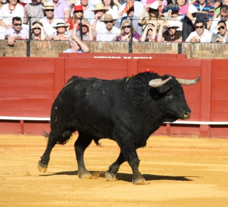 El Pilar bull by Alexander Fiske-Harrison Seville Feria de Abril 2009